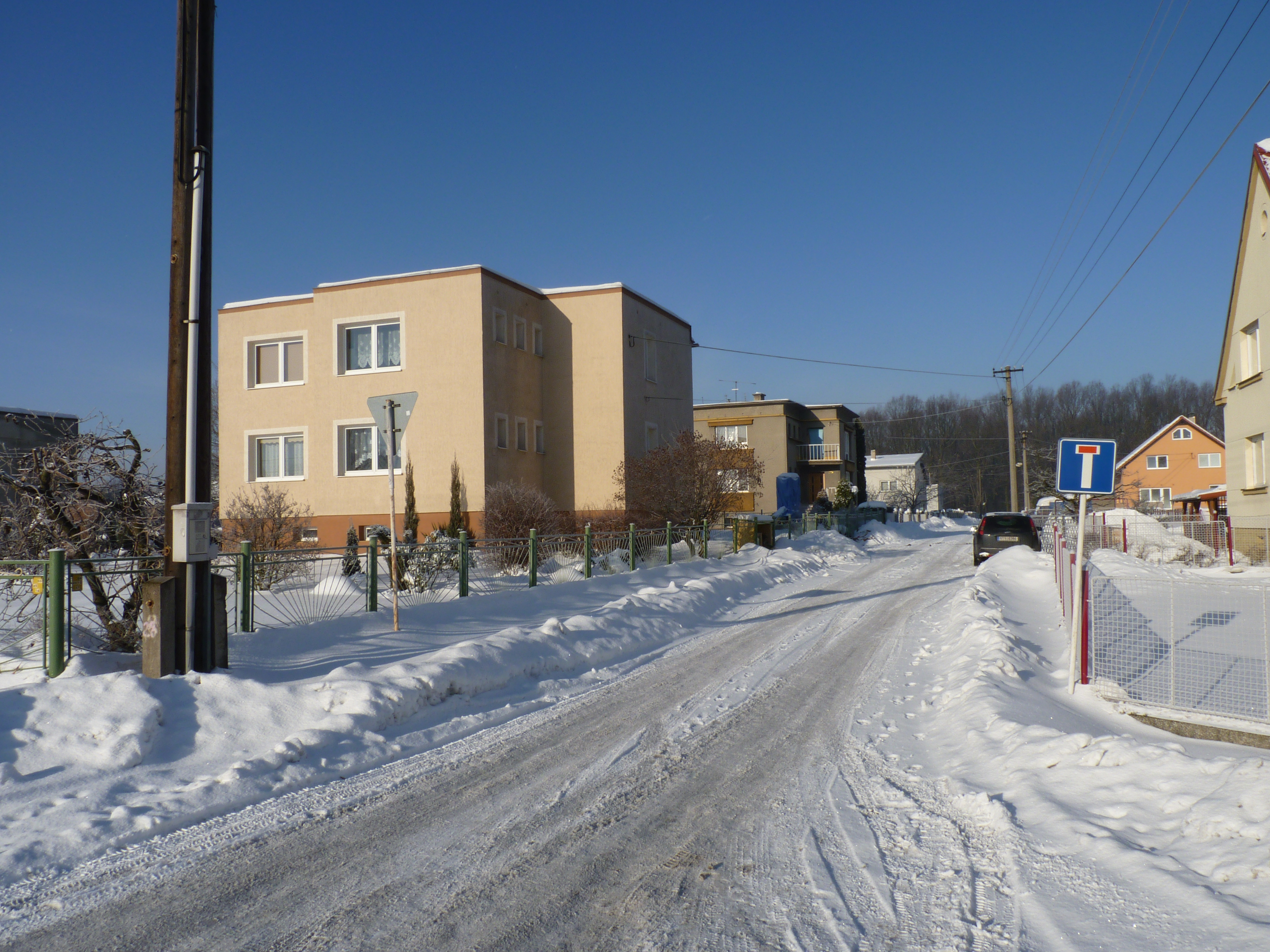 Na Přervalině Street in Šenov, Karviná District, Moravian-Silesian Region, Czech Republic